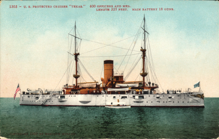 US Protected Cruiser Texas